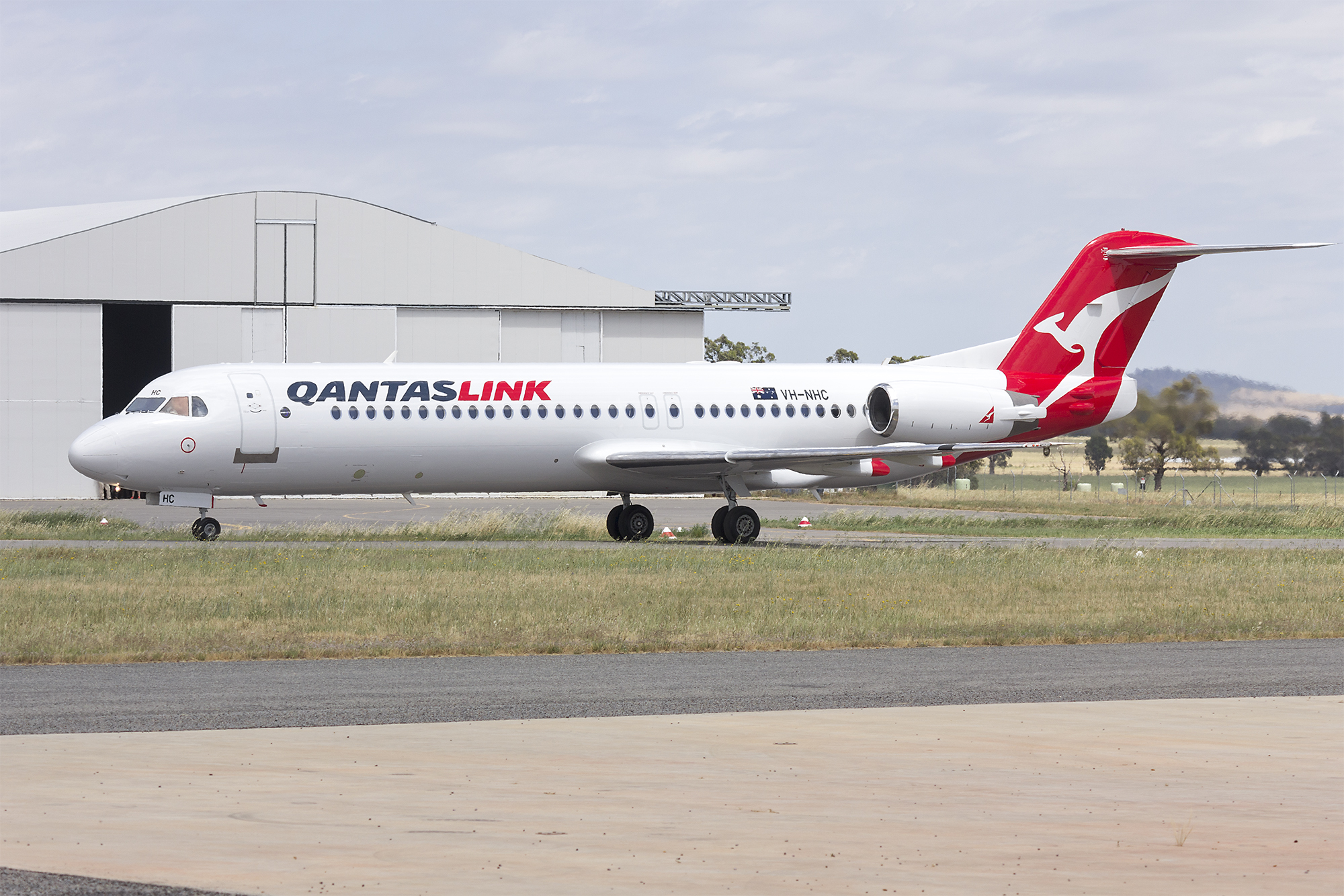 Network Aviation (VH-NHC), in newly painted QantasLink livery, Fokker 100 taxiing at Wagga Wagga Airport.